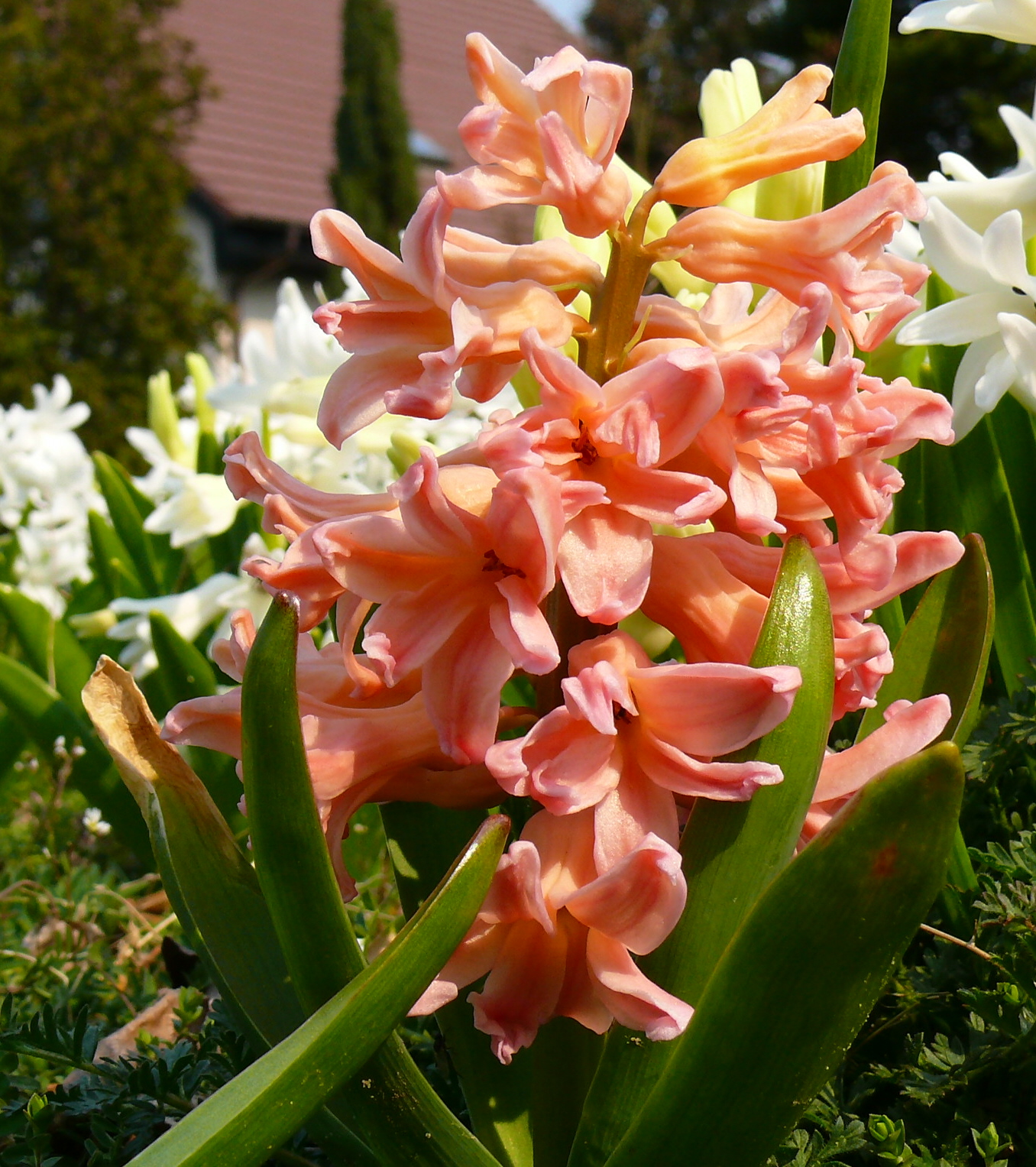 Hyacinthus orientalis cv. 'Gypsy Queen'